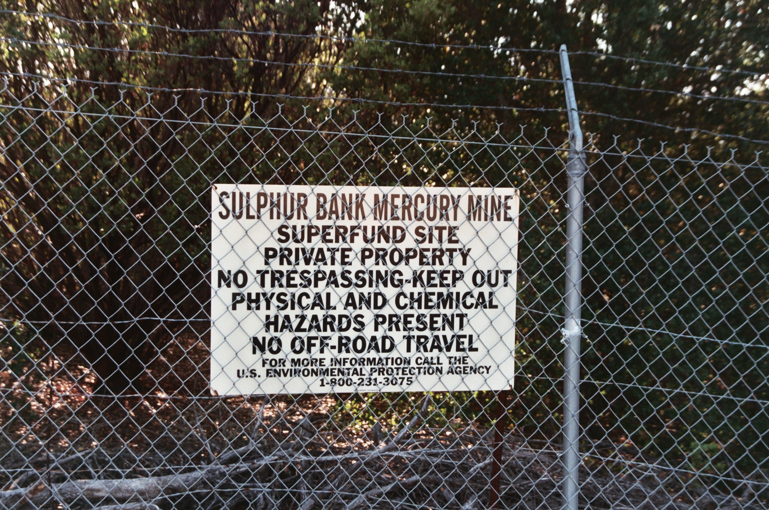 Environmental Protection Agency warning sign on fence surrounding mine property.